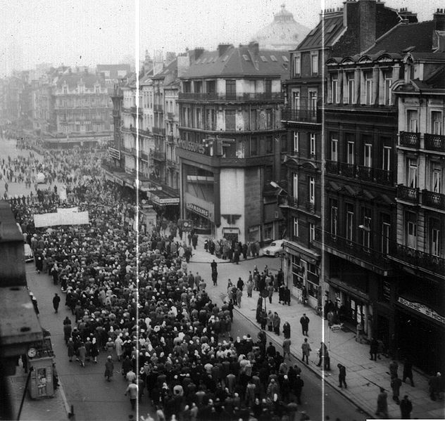 Demonstration in Brussels by Walloon workers in 1960 Walon: Metingue des ovrîs walons a Brussele e 1960